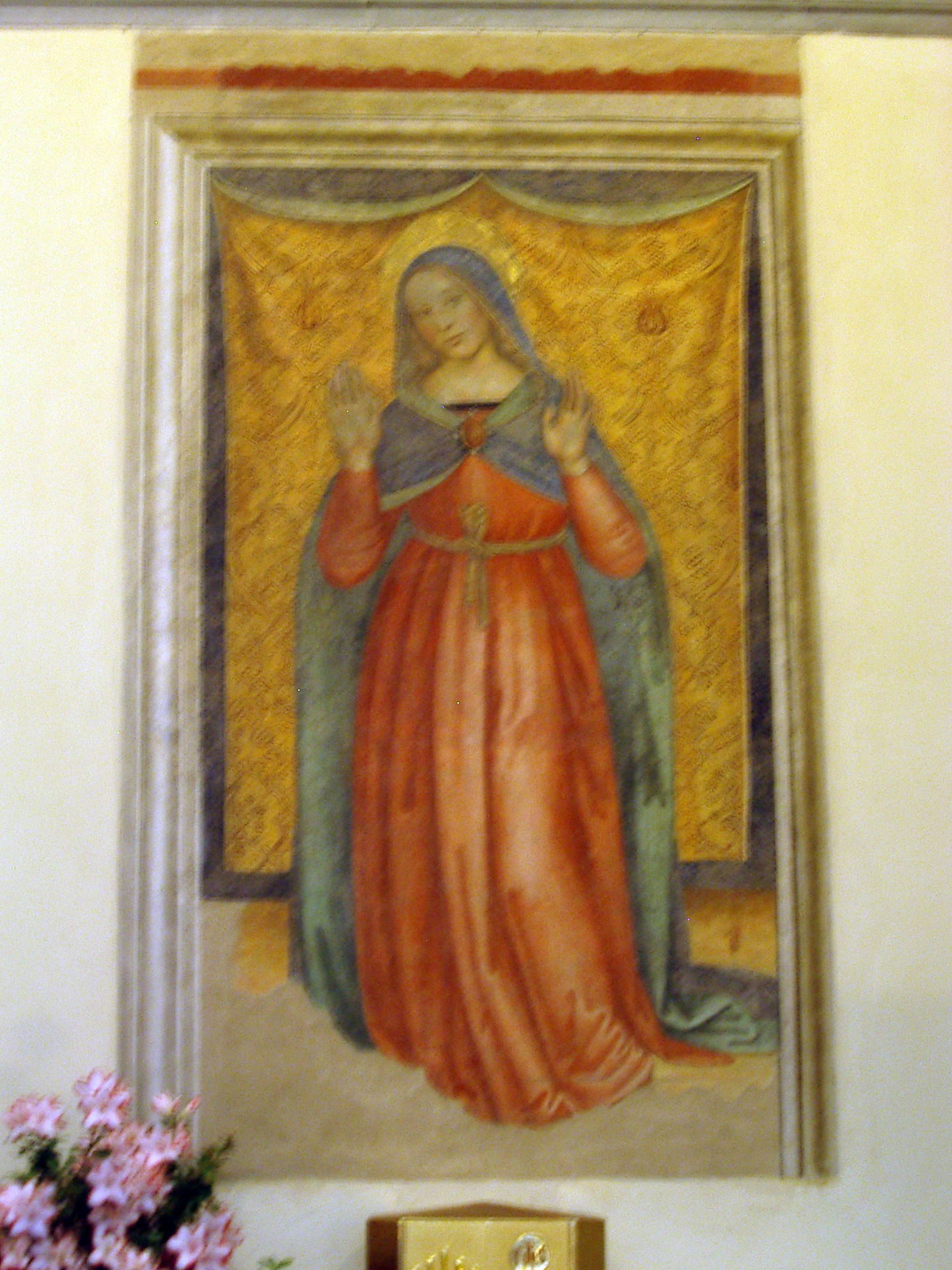 Madonna delle Grazie (early 16th century), Fresco, attributed to Giannicola di Paolo